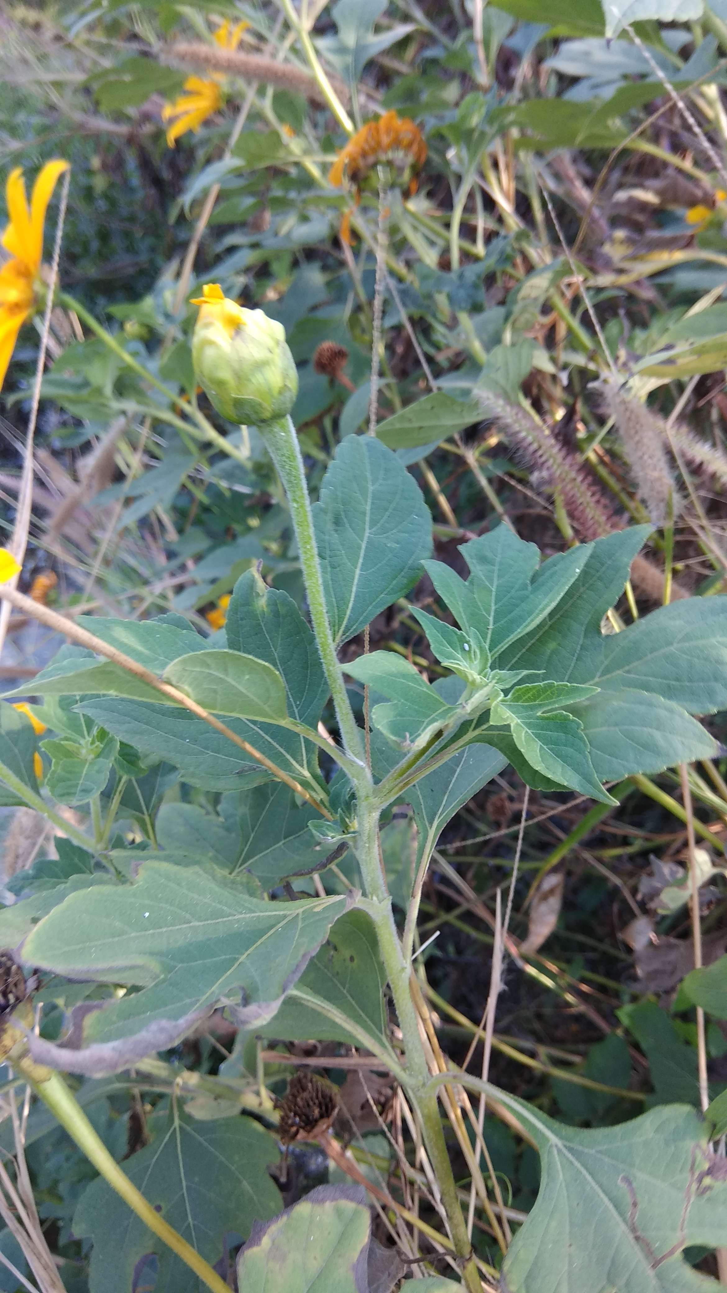 Tithonia diversifolia